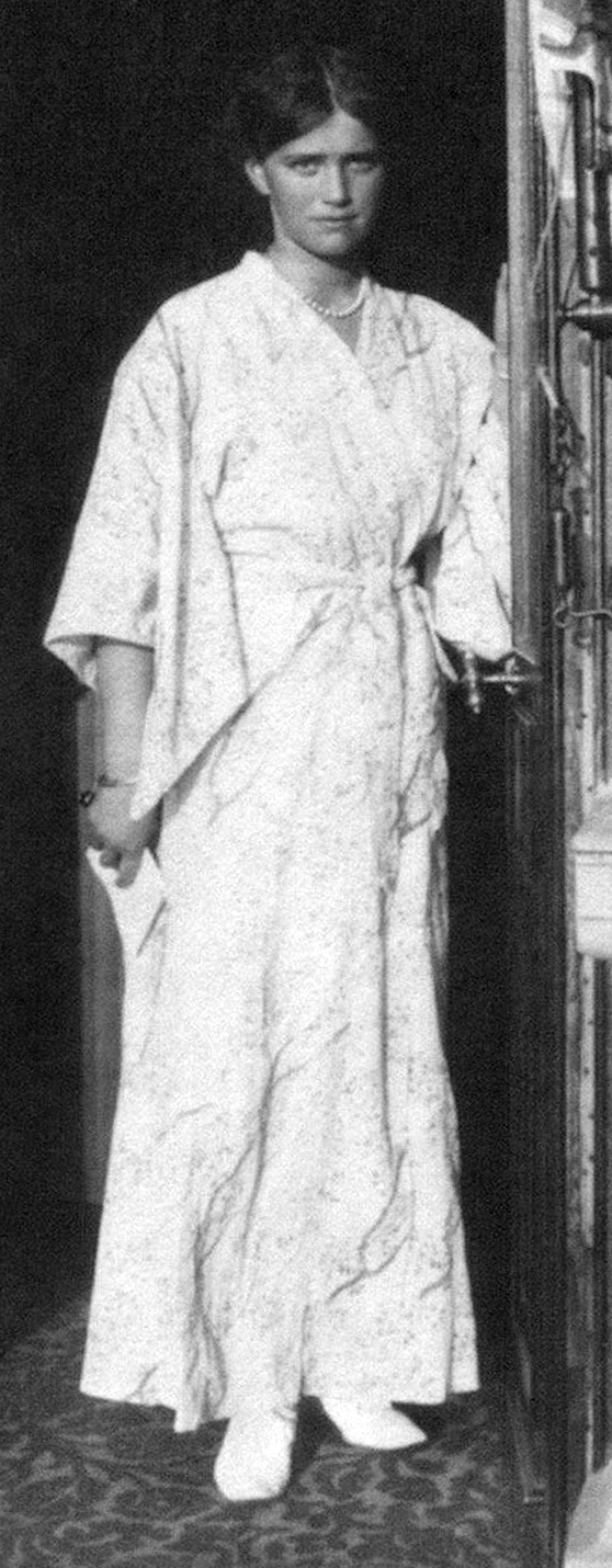 Grand Duchess Maria Nikolaevna of Russia at the Lower dacha in Peterhof. It is from , because of its age, I think it's likely in the public domain. If I'm wrong, please delete the photo immediately.